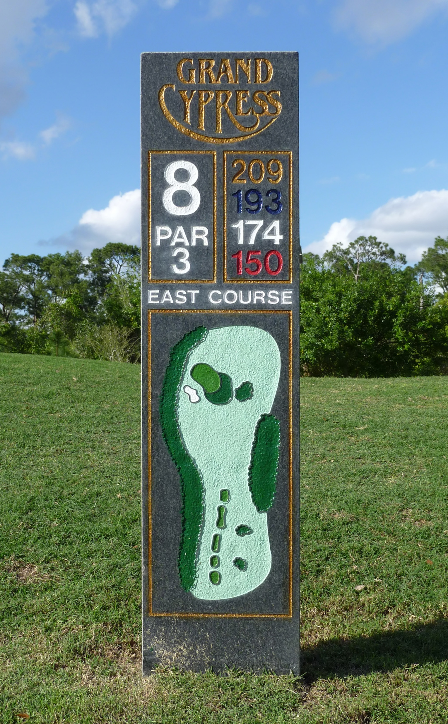 Plaque of the 8th hole of Grand Cypress East Course, Orlando, Florida, USA